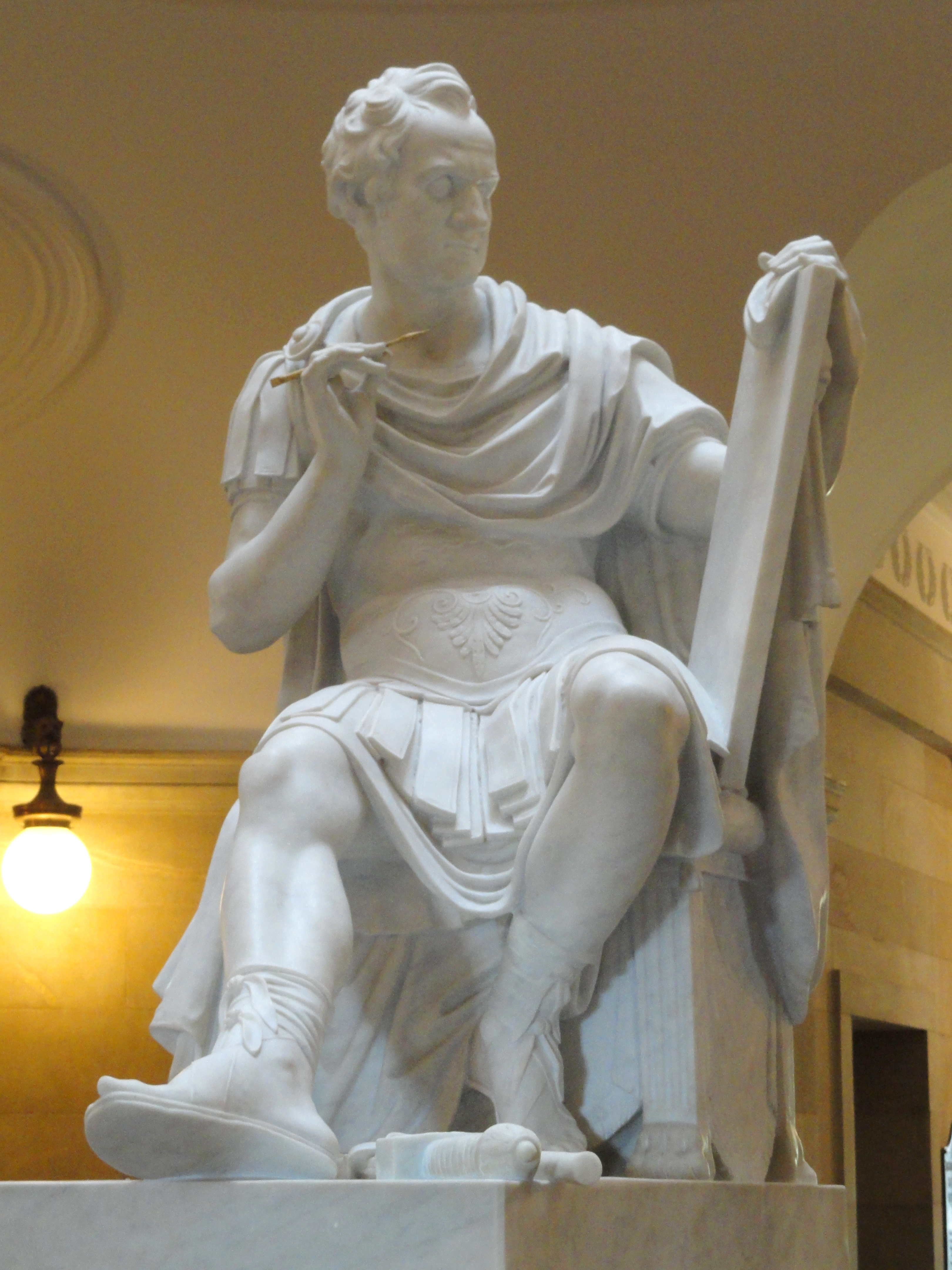 Statue of George Washington by Antonio Canova, located inside the North Carolina State Capitol, Raleigh, North Carolina, USA. This is a 1970 copy of Antonio Canova's original work, which was completed in 1821 but destroyed by fire in 1831.